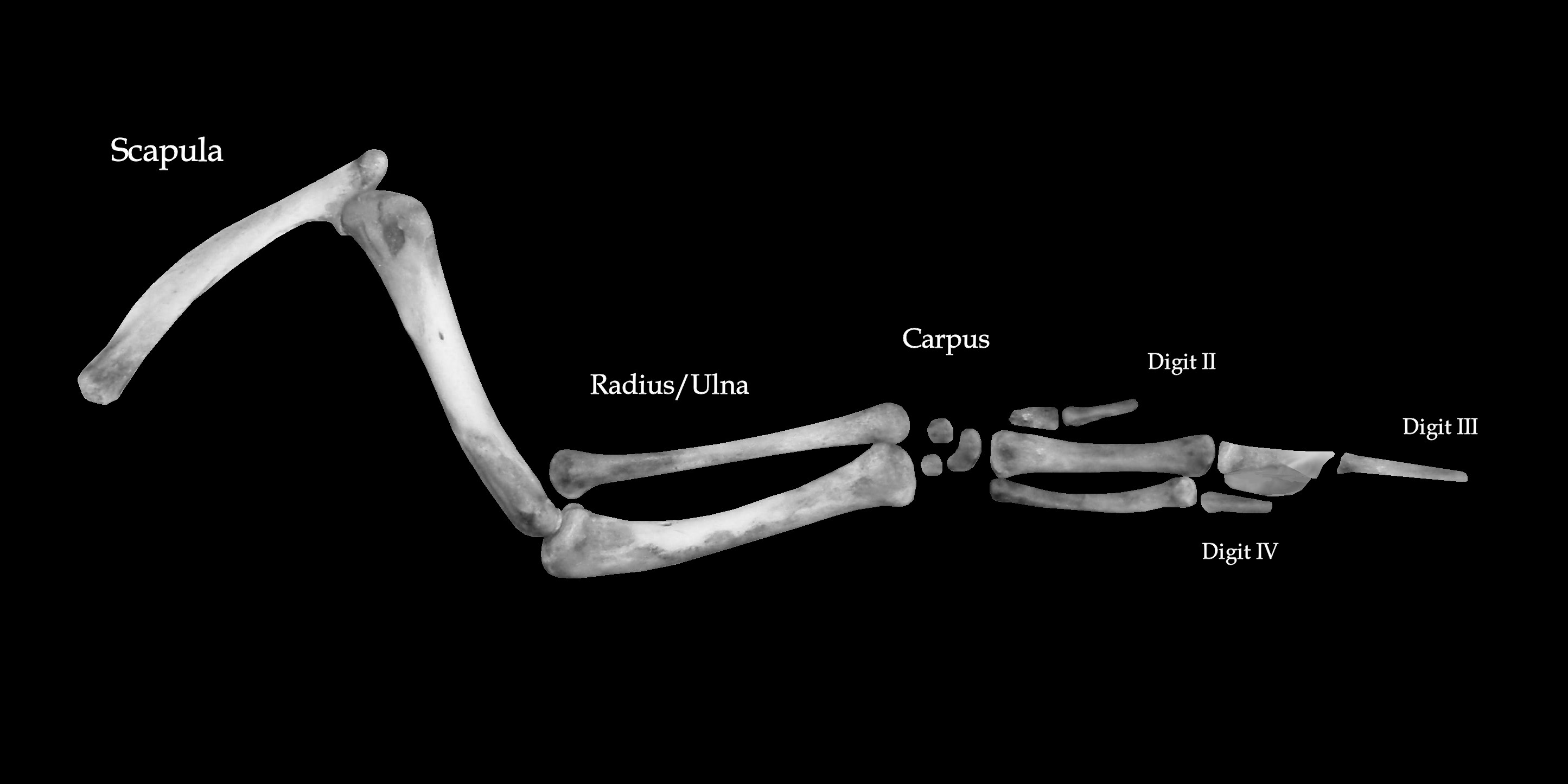 Bones in the wing of a domestic chicken (Gallus gallus). Note: the carpals and phalanges in digits II and III are restorated in the computer, as those pieces were missing.